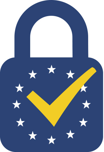 EU trust mark for qualified trust services